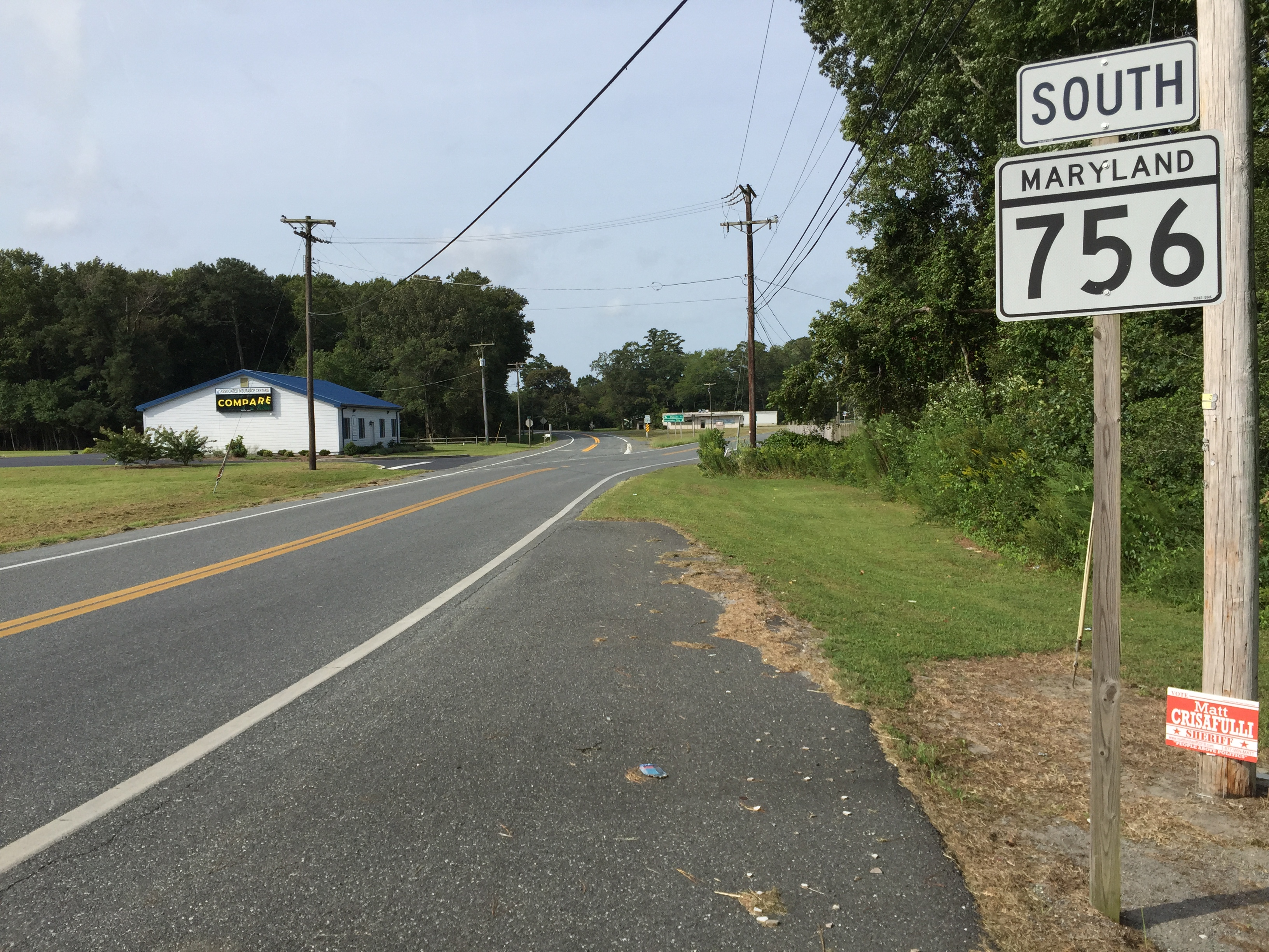 View south along Maryland State Route 756 (Old Snow Hill Road) at U.S. Route 113 (Worcester Highway) just northeast of Pocomoke City in Worcester County, Maryland